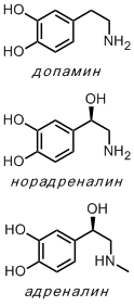 List of the major catecholamines